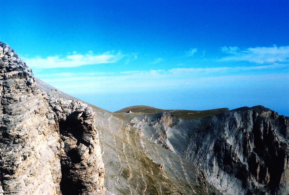 Zonaria and Oropedio Mouson at mountain Olympos. Image taken near summit in September 2001.